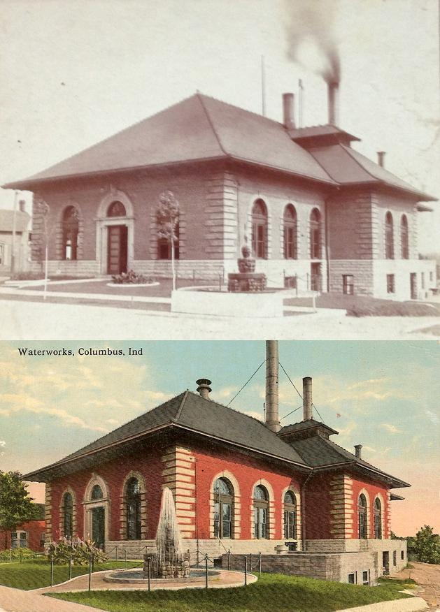 The top image is from 1904, and shows the north west elevation of the Power House before it was outfitted with dynamos to generate electricity. The bottom image is a postcard postmarked 1914 which shows a small addition on the west side of the basement to house the dynamos.